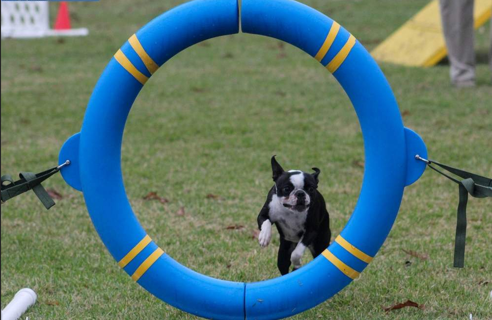 A Boston Terrier performing in the Agility ring